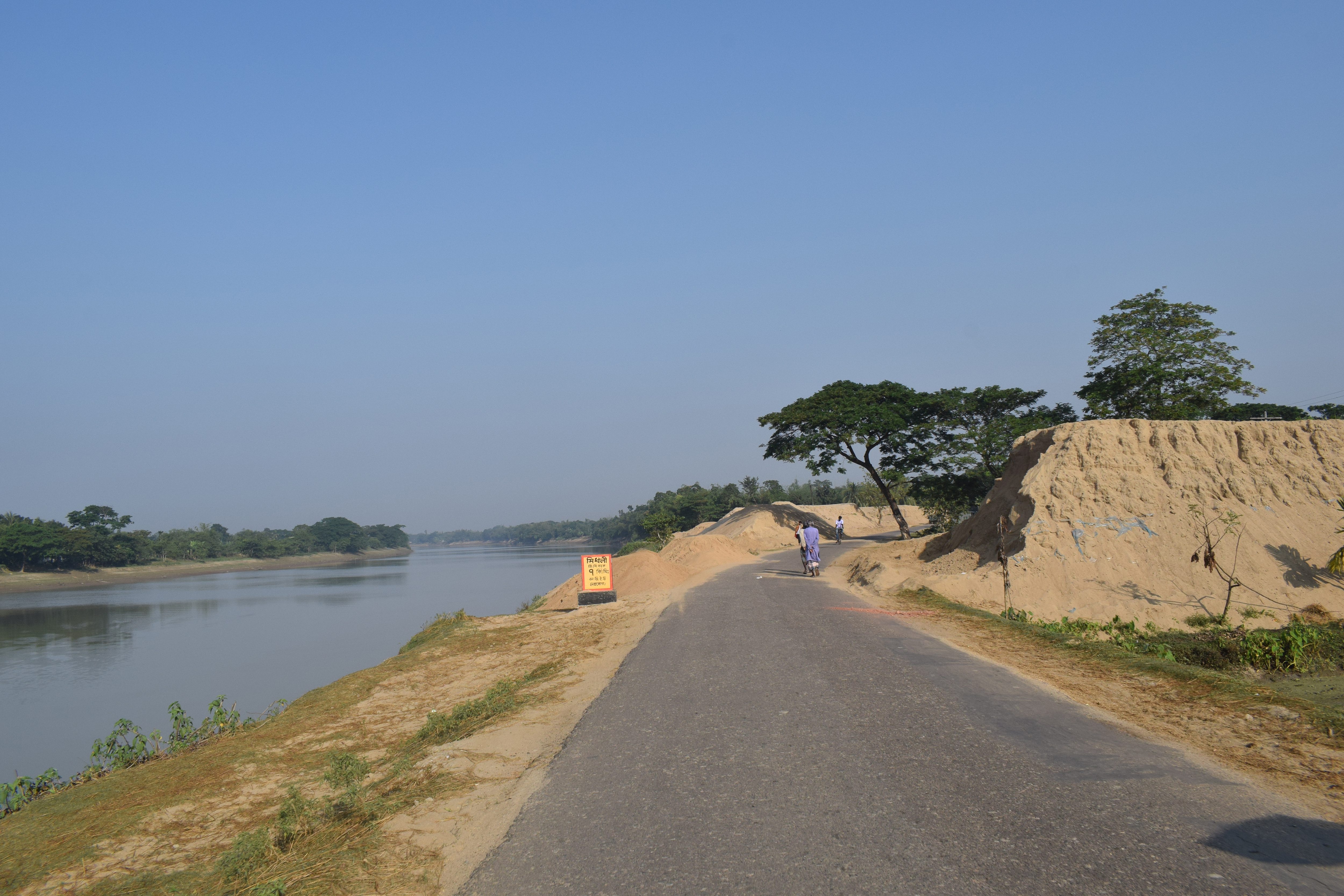 Kangsha River near Borowari, Netrakona